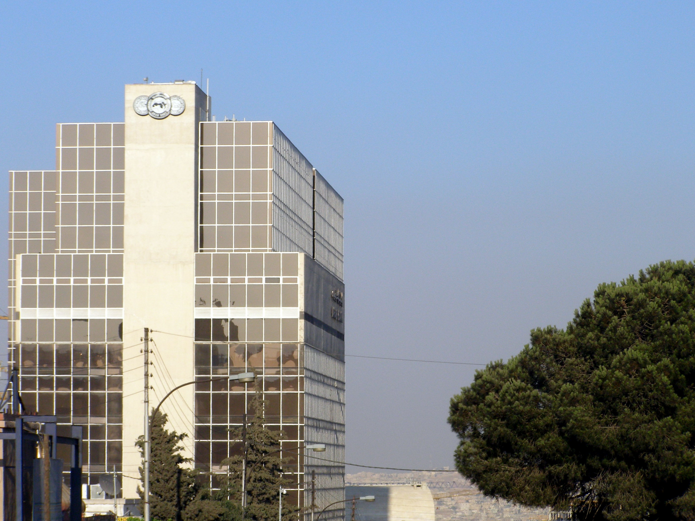 Arab Bank Head Quarters - Amman